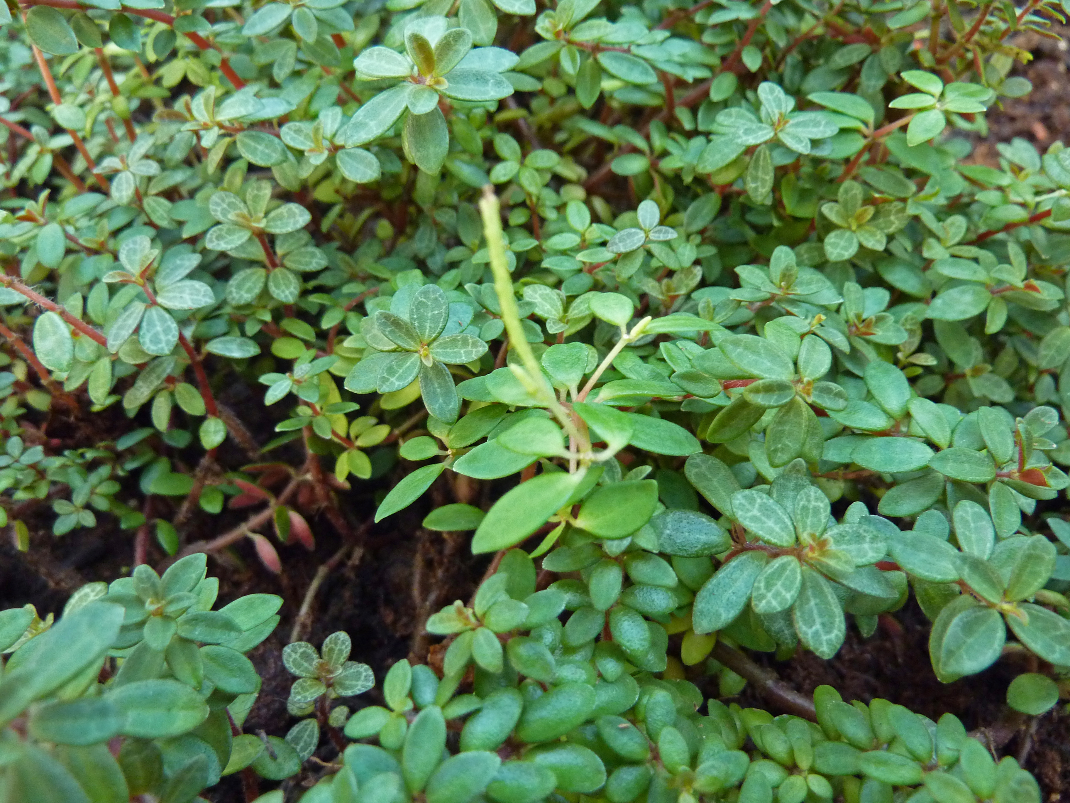 Peperomia rubella in the Botanical Garden, Berlin